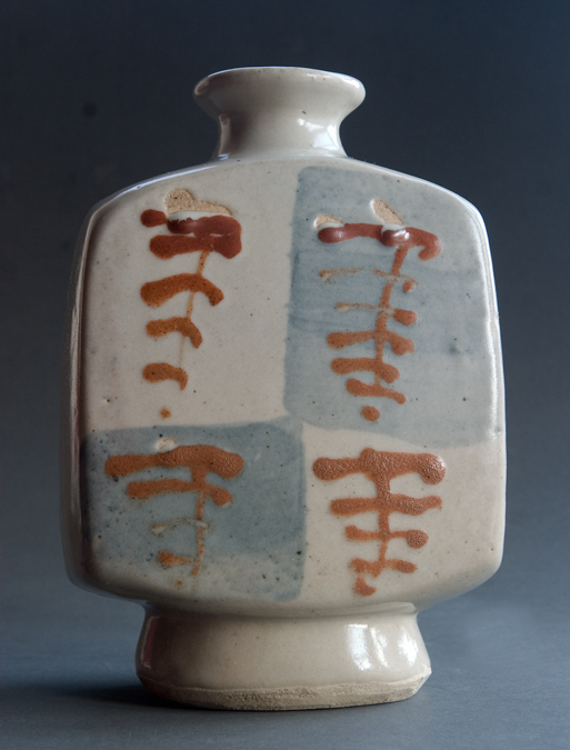 Bernard Leach Vase